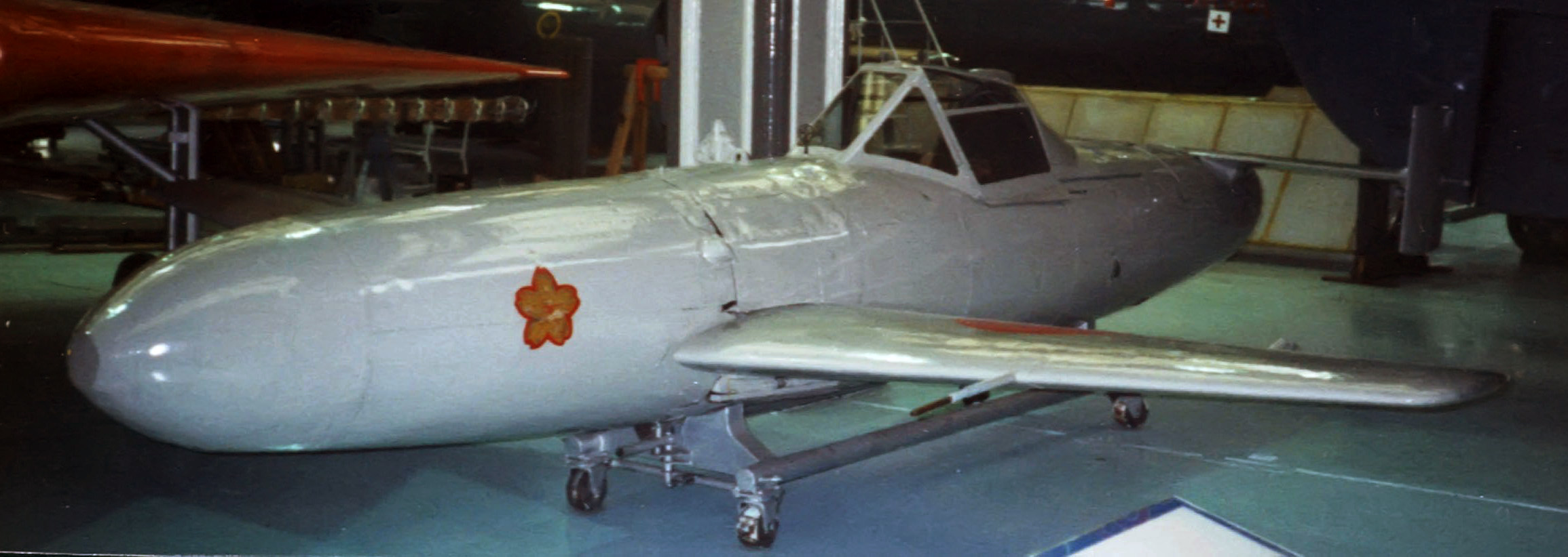 Japanese (unused) kamikaze airplane in the Museum of Science and Industry in Manchester. According to Japanese Aircraft Survivors, it is a Yokosuka MXY-7 Baka. "Baka" was the US military name, short for "Bakatari" (fool). The Japanese name was Yokosuka MXY-7 Ohka.